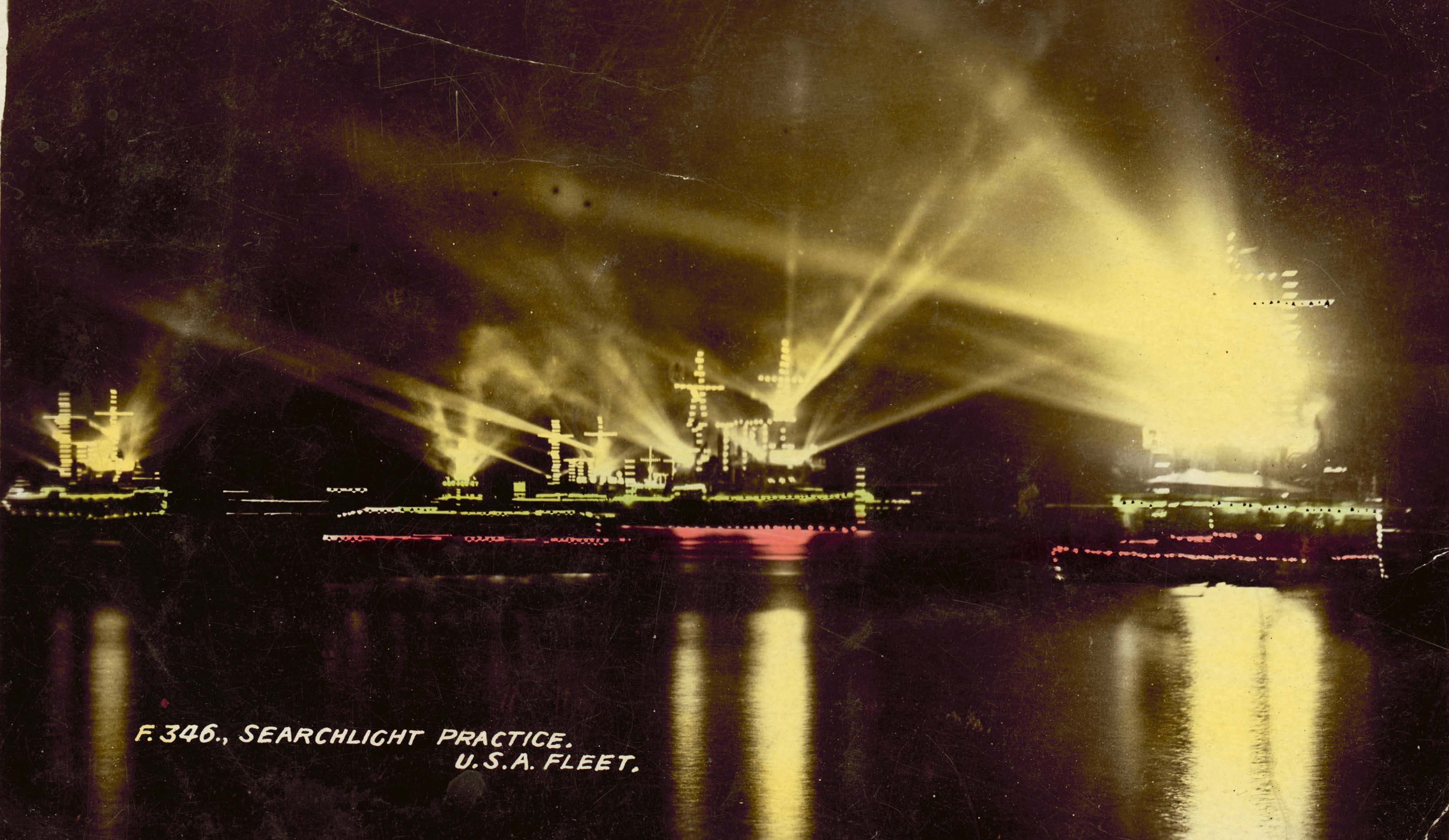 In December 1907 United States President Theodore Roosevelt sent the US Atlantic Battle Fleet of 16 battleships, all painted white in peacetime colours, on a 14 month goodwill cruise around the world. The voyage came at a time of tense relations between Japan and America and gave the US an opportunity to demonstrate its blue-water naval capabilities as well as strengthen diplomatic ties. The fleet arrived in Australia on 20 August 1908. For more information on lightshows of the past, see our blog. If reproduced or distributed, this image should be clearly attributed to the collection of the Australian National Maritime Museum; and not be used for any commercial or for-profit purposes without the permission of the museum. For more information see our Flickr Commons Rights Statement. The ANMM undertakes research and accepts public comments that enhance the information we hold about images in our collection. This record has been updated accordingly. Object number: 00015349